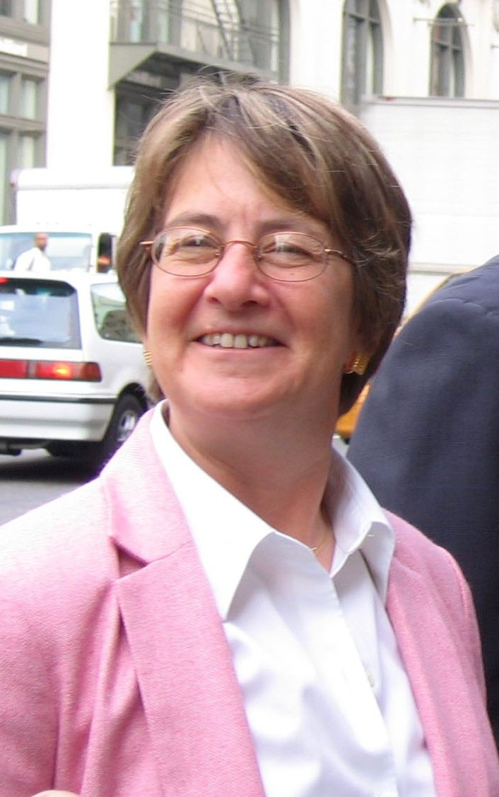 Assemblywoman Deborah Glick